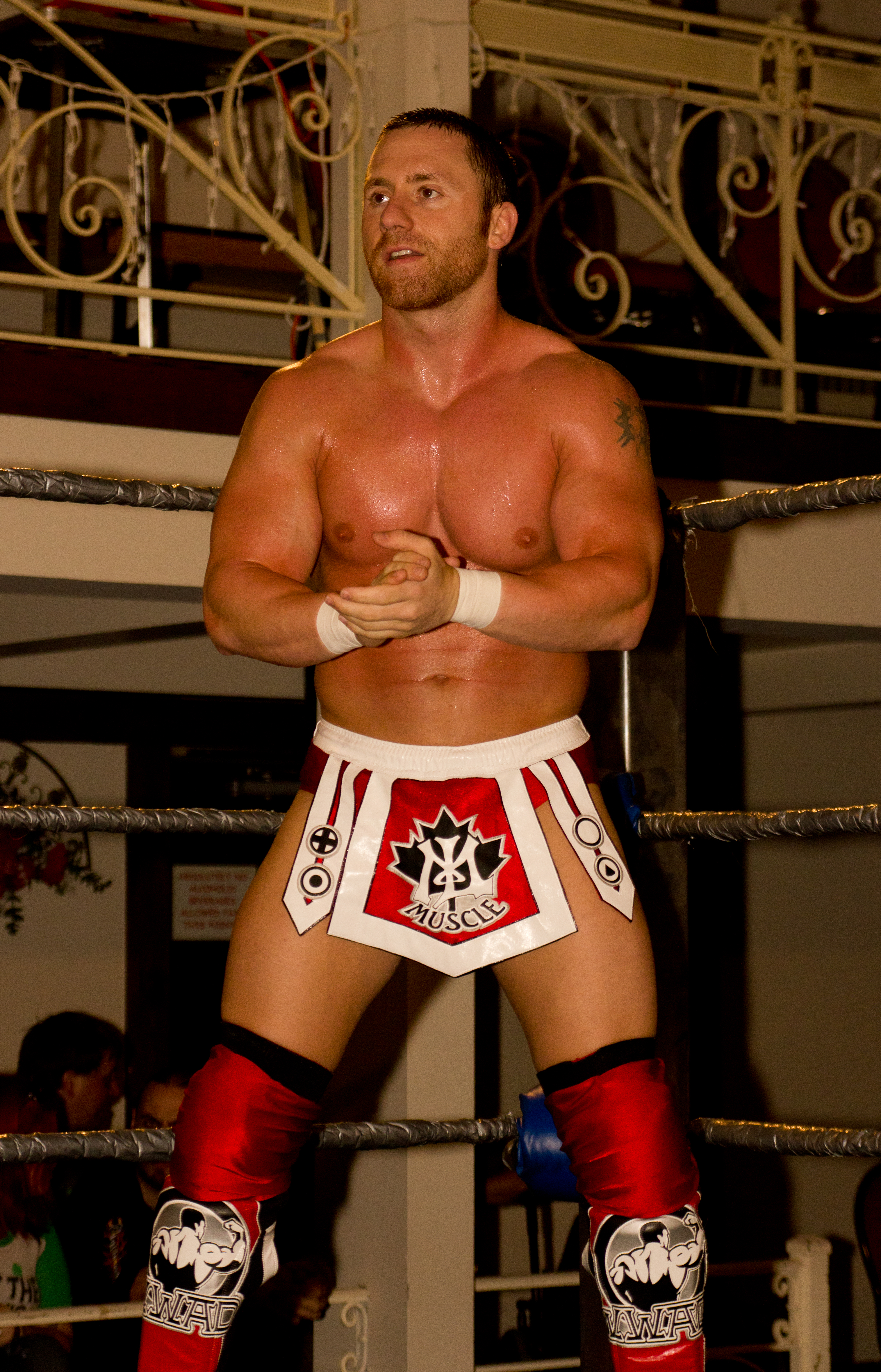 Professional wrestler Petey Williams making their ring entrance at an Alpha1 show